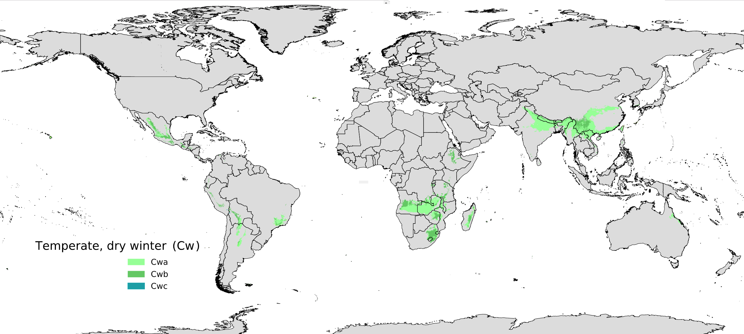 Global map for dry winter temperate climate (Cw)